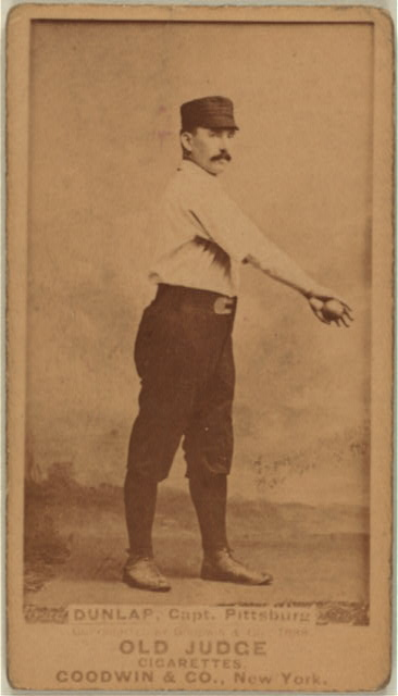 Fred Dunlap on an 1887-90 Goodwin & Company baseball card (Old Judge (N172)).